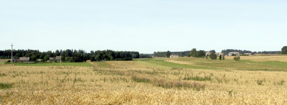 Bulėnai, Šiauliai district, Lithuania